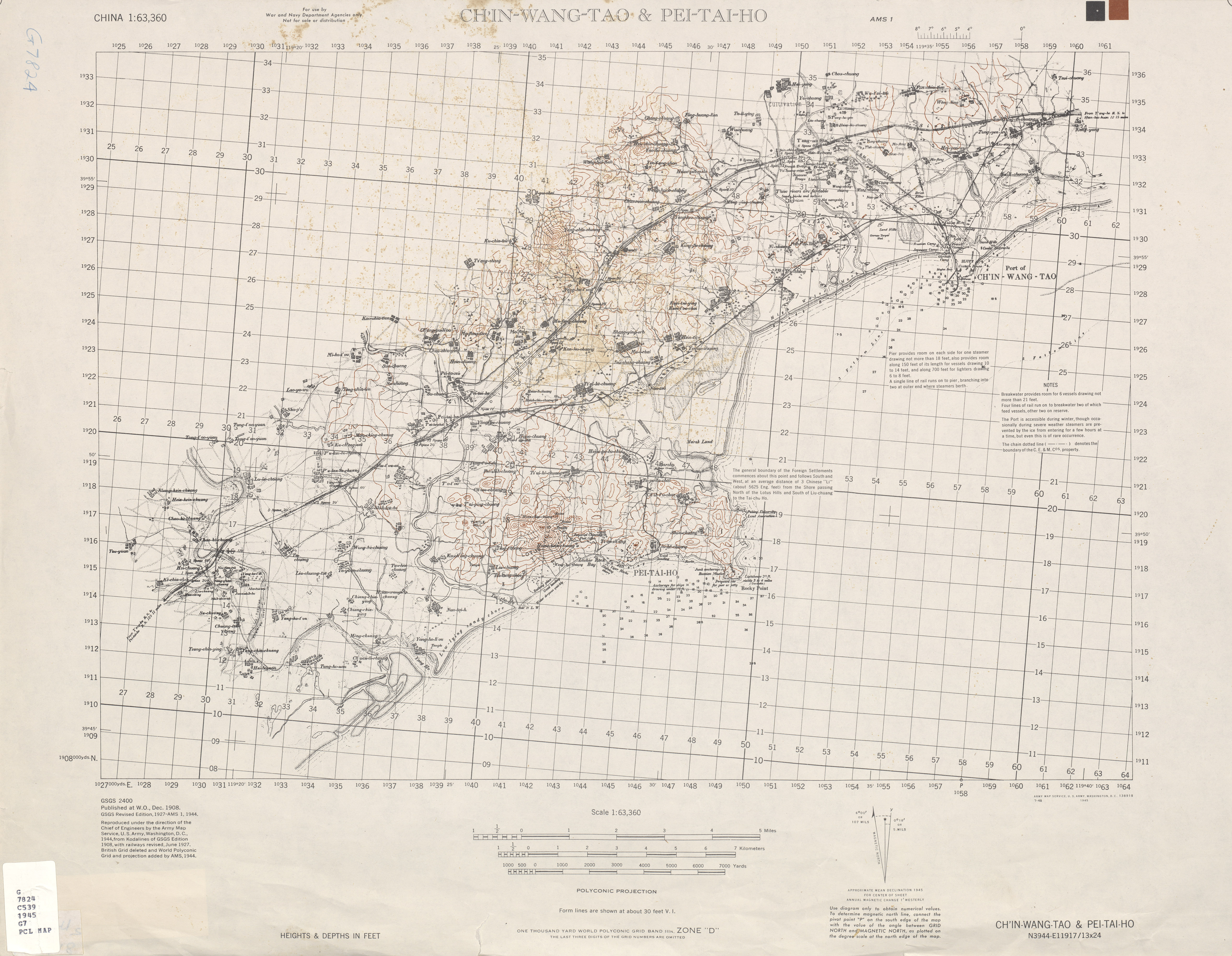 Map of Qinhuangdao and Beidaihe, China. Printed by the British War Office / US Army Map Service.